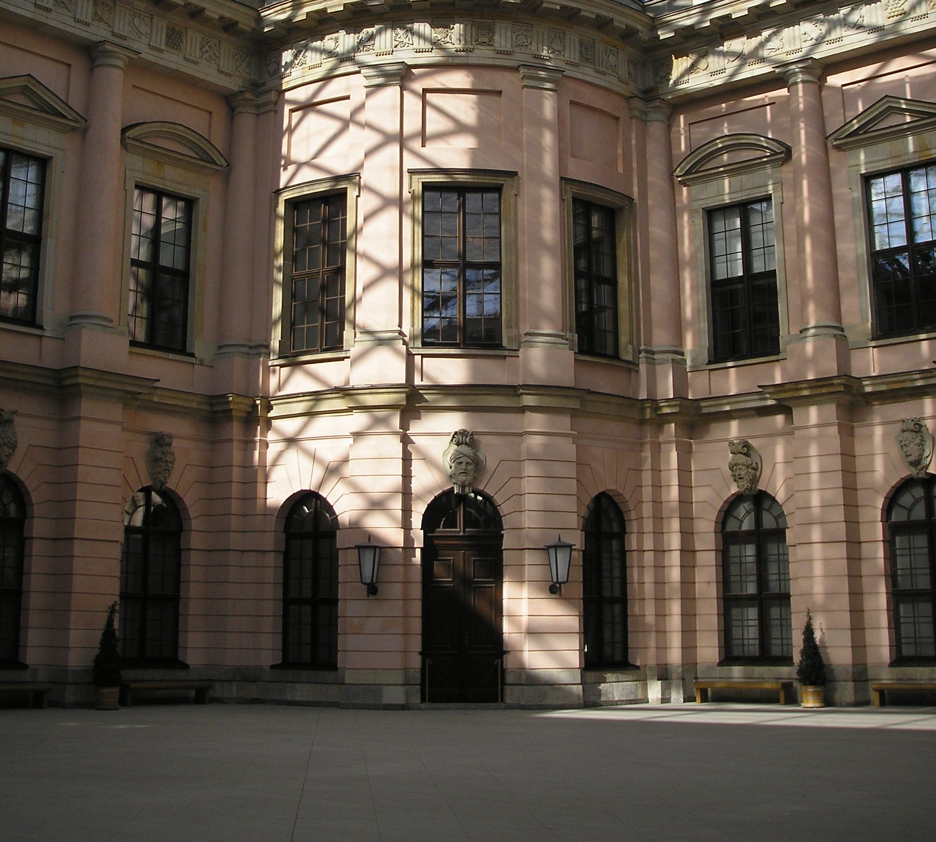 Interior view of the Zeughaus, currently the Deutsches Historisches Museum (DHM) in Berlin. The modern parts are build after plans by I.M. Pei.